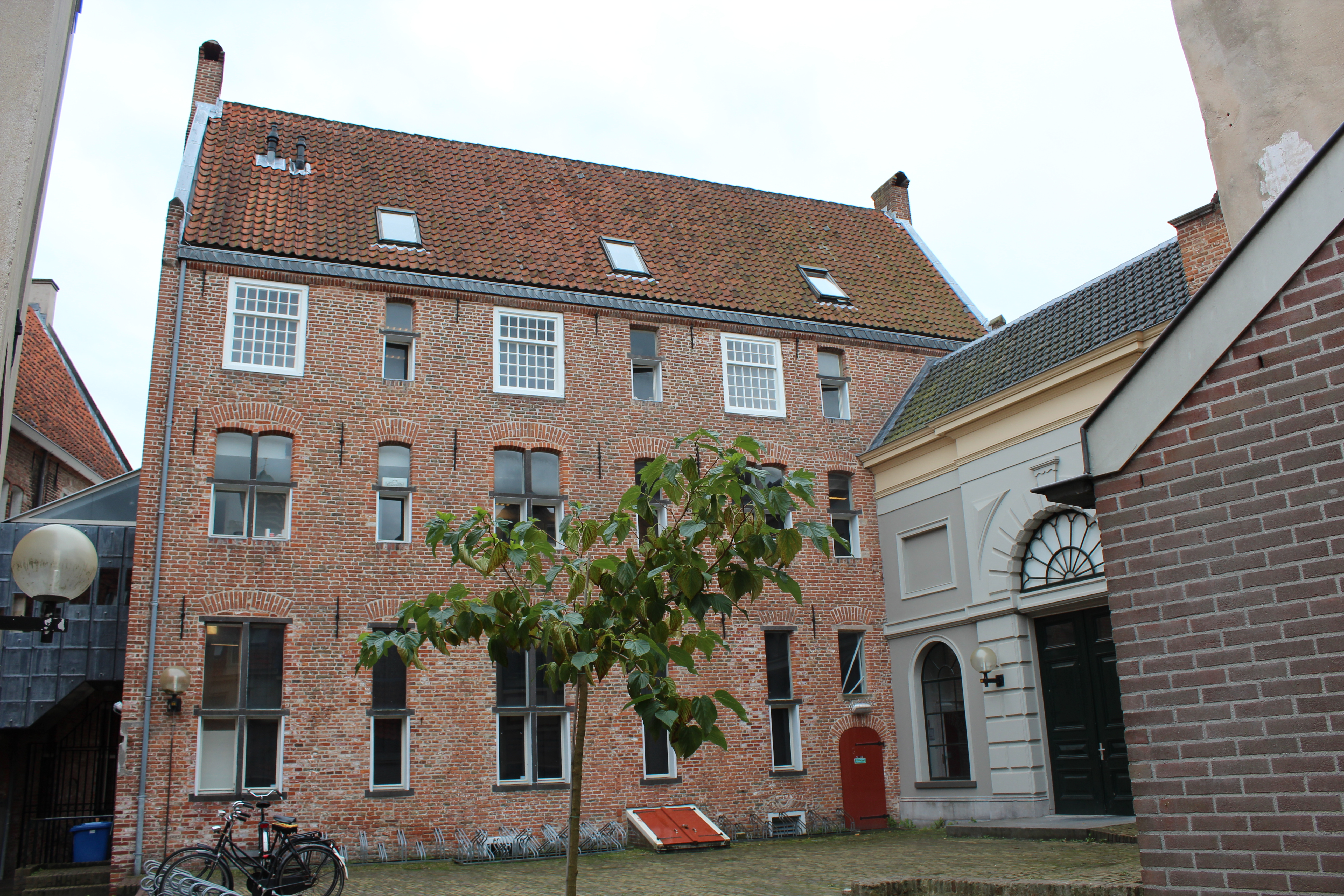 The Rijke Fratershuis ("Rich Fryers house") in Zwolle. Built in 1396 it became a domus vicina of the Modern Devotion in 1497 and in the 17th century was the home of Bartjens.